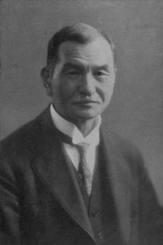 Recent portrait of Mr. Matatarō Matsumoto.